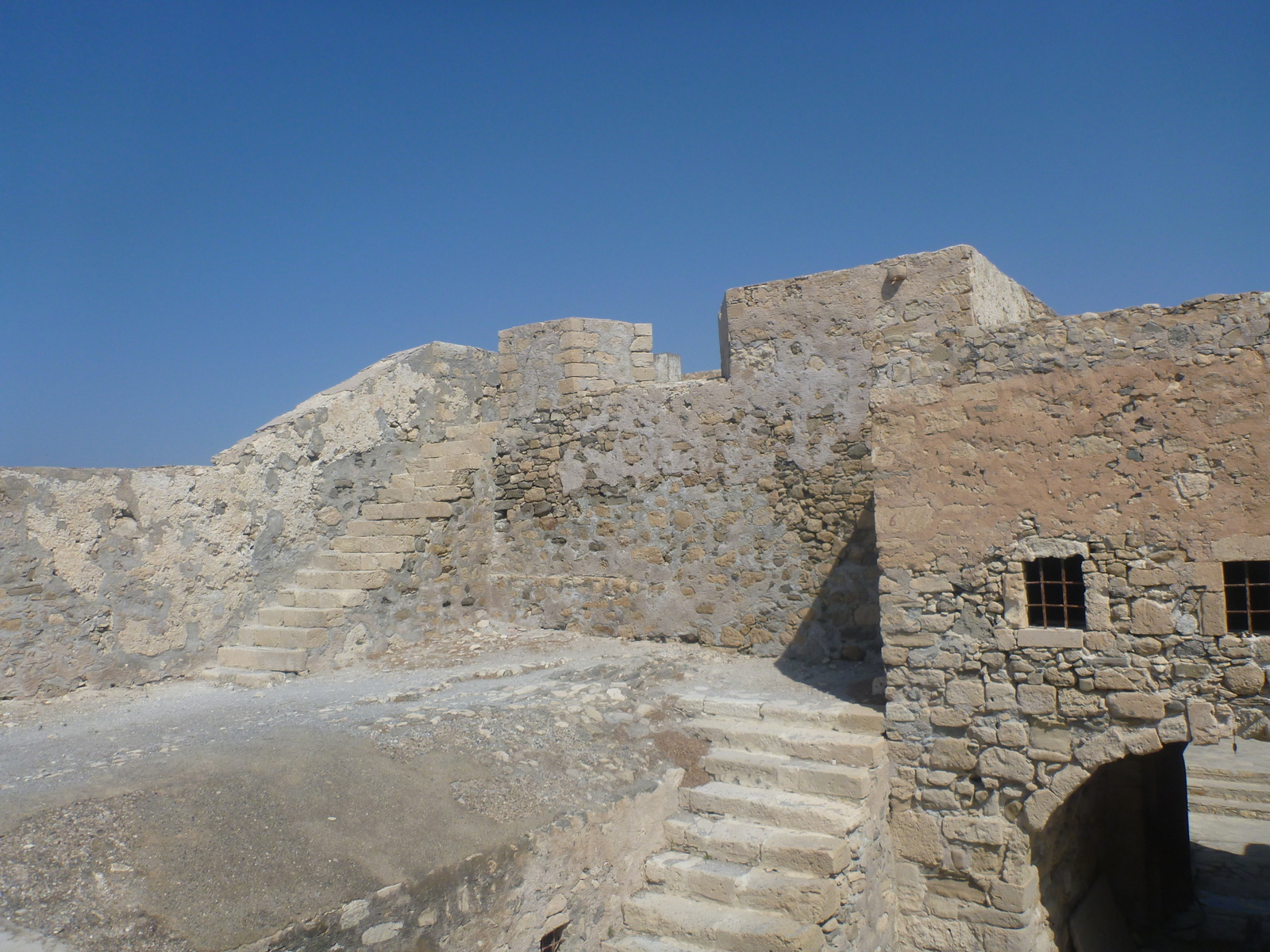 Holidays - Crete